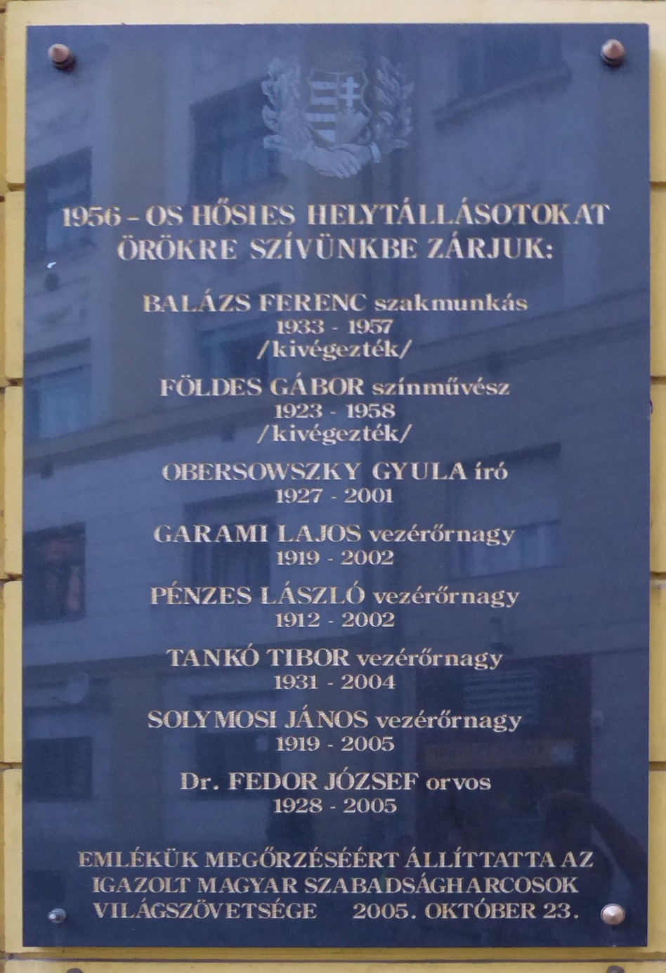 Balázs Ferenc et al emléktáblája a Corvin mozi falán, Budapest VIII. Felirata: 1956-os hősies helytállásotokat örökre szívünkbe zárjuk: Balázs Ferenc szakmunkás 1933–1957 (kivégezték) Földes Gábor színművész 1923–1958 (kivégezték) Obersowszky Gyula író 1927–2001 Garami Lajos vezérőrnagy 1919–2002 Pénzes László vezérőrnagy 1912–2002 Tankó Tibor vezérőrnagy 1931–2004 Solymosi János vezérőrnagy 1919–2005 Dr. Fedor József orvos 1928–2005 Emlékük megőrzéséért állítattta az Igazolt Magyar Szabadságharcosok Világszövetsége, 2005. október 23. A fényképet 2017-05-26-n készítettem. Ugyanerről a tábláról másik fénykép: File:1956 -os emléklap (16).JPG